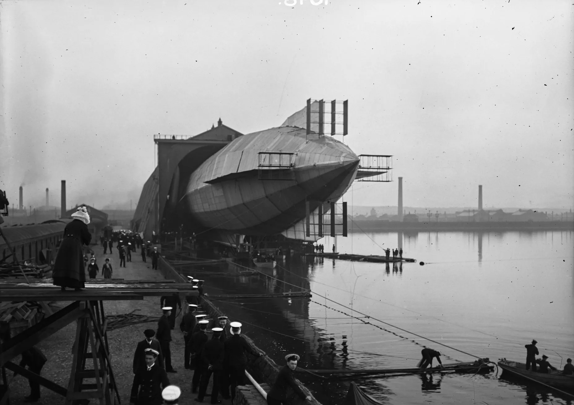 British naval airship HMA No.1 emerging from her floating shed at Cavendish dock, Barrow-in-Furness on 24 September 1911 (Image cropped to remove text)